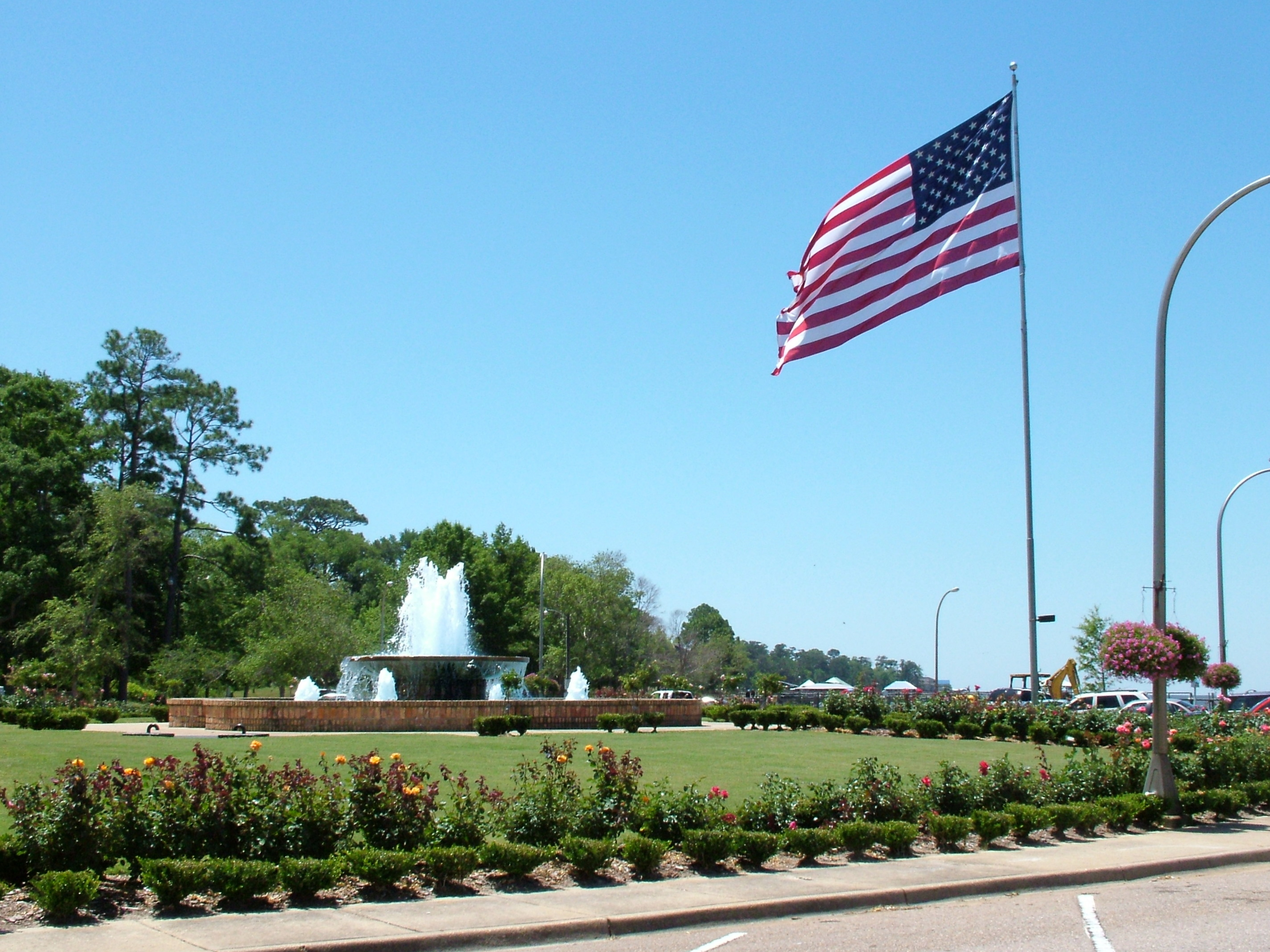 Photograph of the fountain at the Fairhope Municipal Pier in Fairhope, Alabama